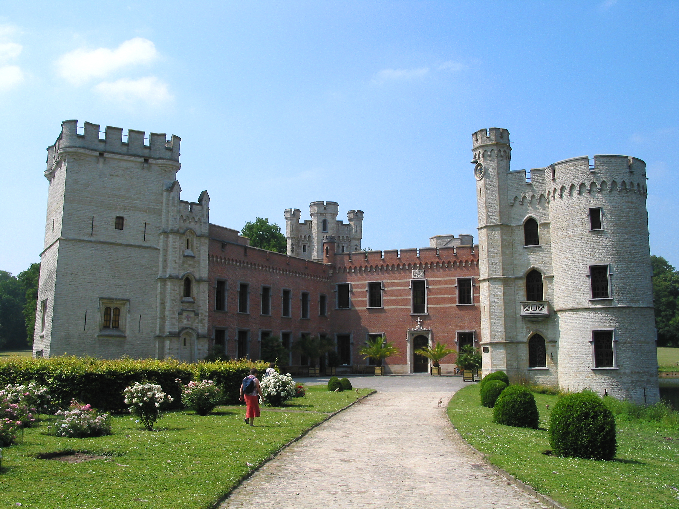 Meise (Belgium), the Bouchout castle (XII-XIXth centuries).